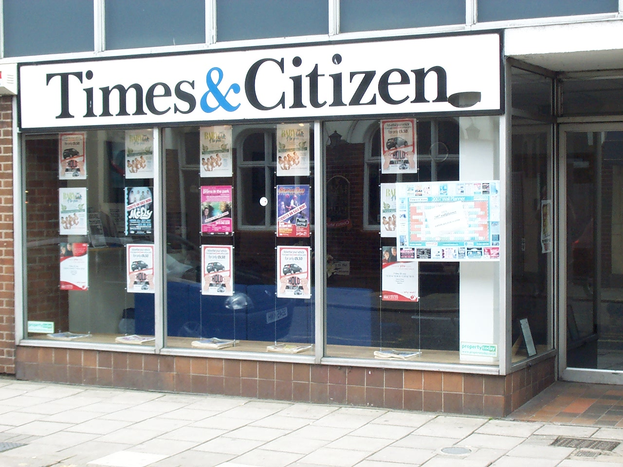 Time and Citizen offices, Mill Street, Bedford England.